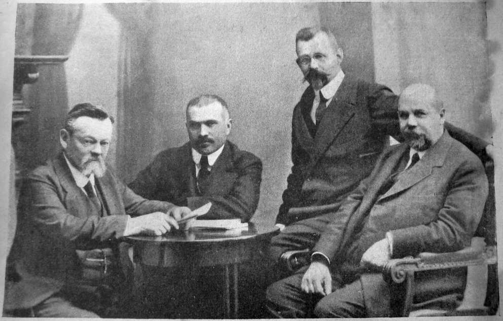 Founders of the Moscow Brotherly cemetery